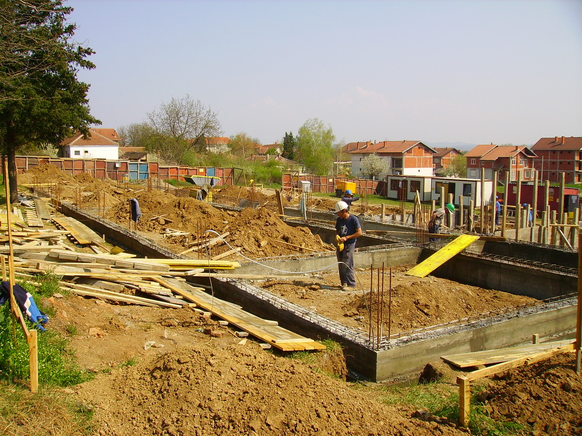 The U.S. Army Corps of Engineers Europe District recently completed a community center for children with special needs in Varvarin, Serbia. The $444,000 project is one of several district-managed construction and renovation projects in the Balkans funded by the U.S. European Command Humanitarian Assistance Program.